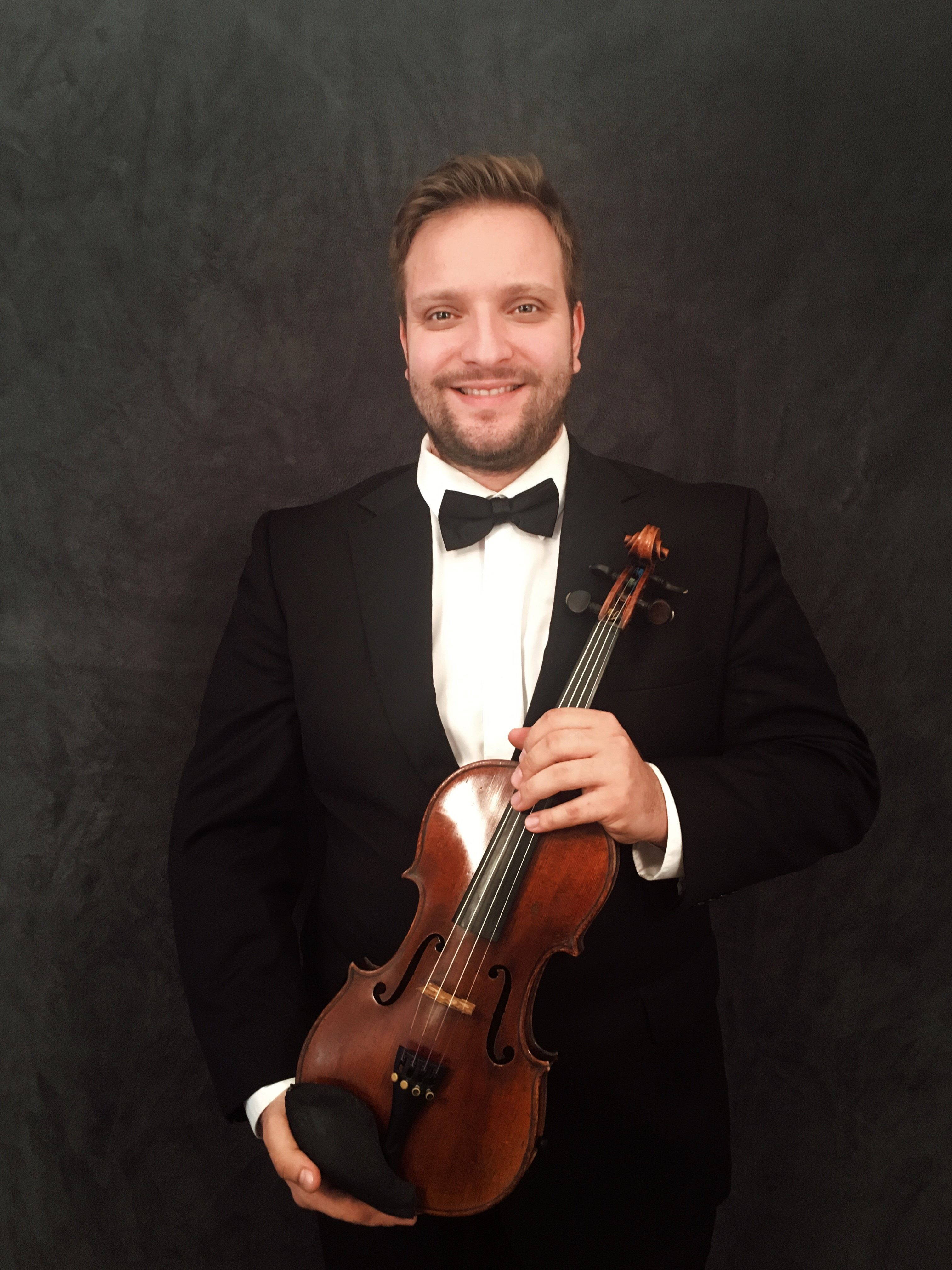 Ruslan Apostolov in concert dress with his violin